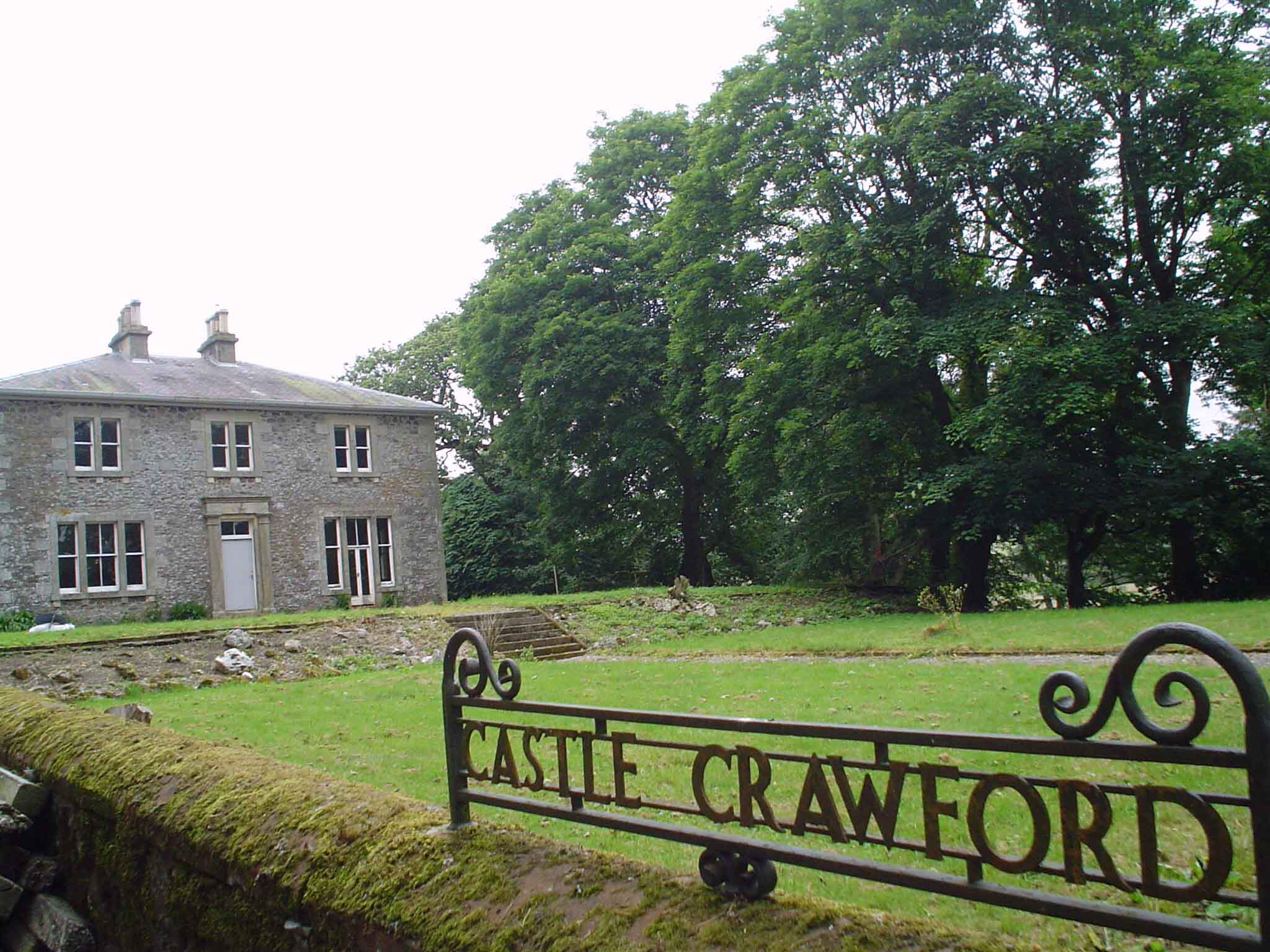 Terrorford 22:16, 6 October 2006 (UTC)